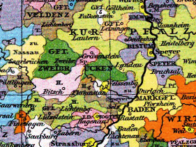 County of Zweibrücken and Zweibrücken-Bitsch around 1400